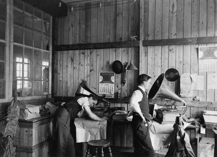 Photograph, Testing machines, Berliner Gramophone Company, Montreal, QC, 1910, Silver salts on paper - Gelatin silver process - 12.7 x 17.8 cm